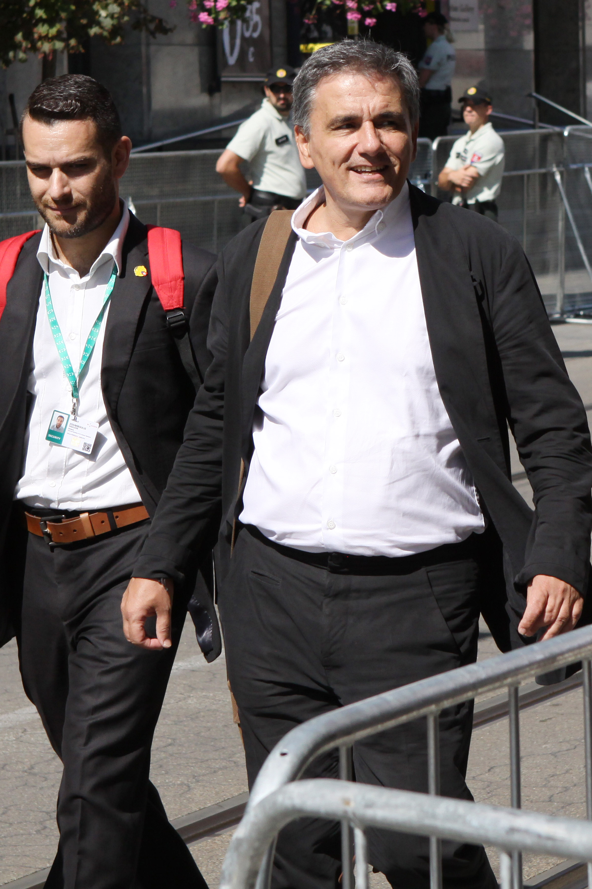 Greece, Mr. Euclid Tsakalotos, Minister of Finance (R) Informal Meeting of Ministers for Economic and Financial Affairs (Informal ECOFIN) Photo: Andrej Klizan